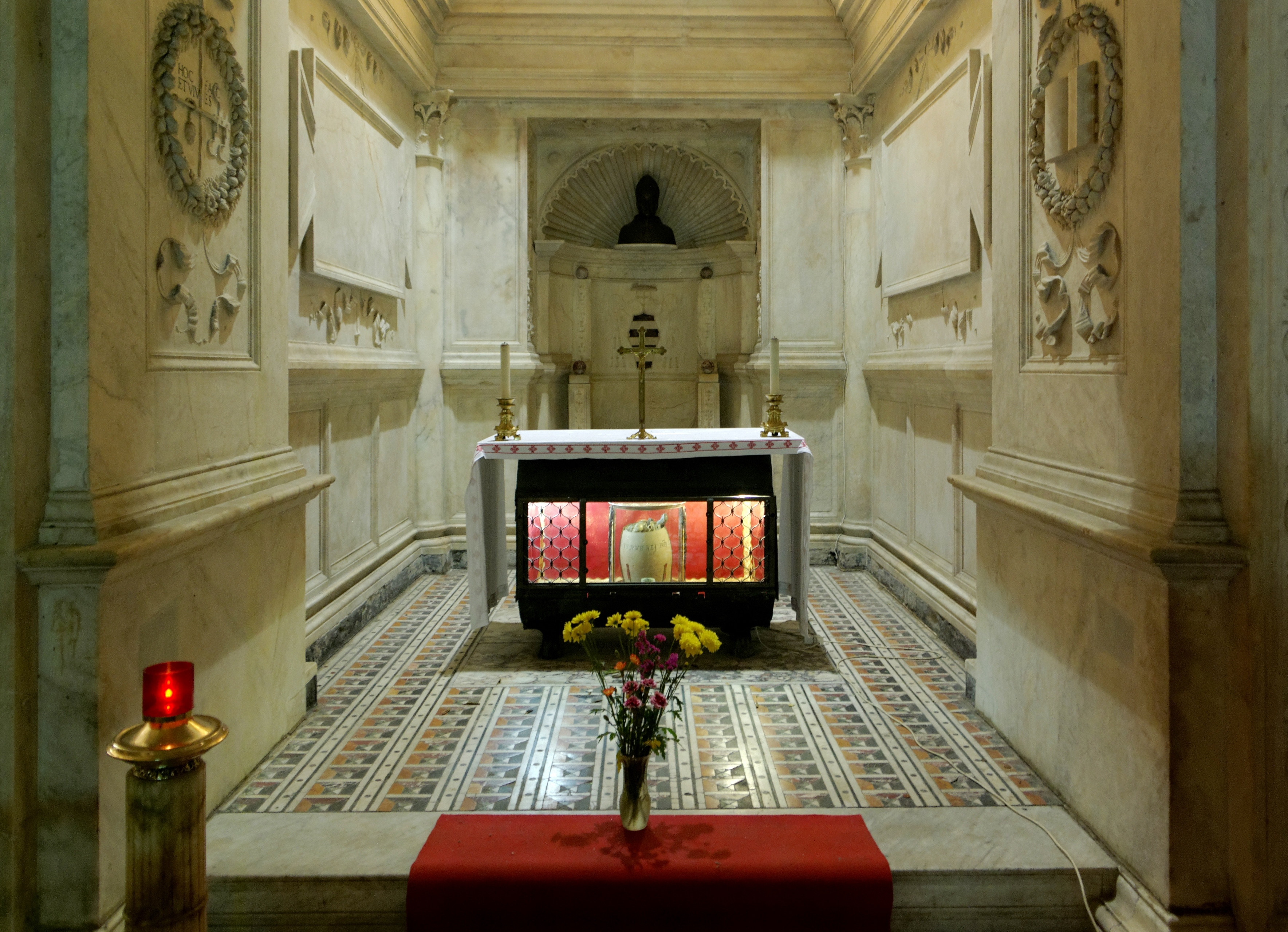 Naples, cathedral